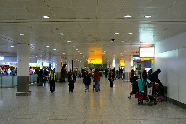 Terminal 3 arrivals hall. London Heathrow airport The arrivals hall was not particularly busy on this ordinary working day outside the holiday season.